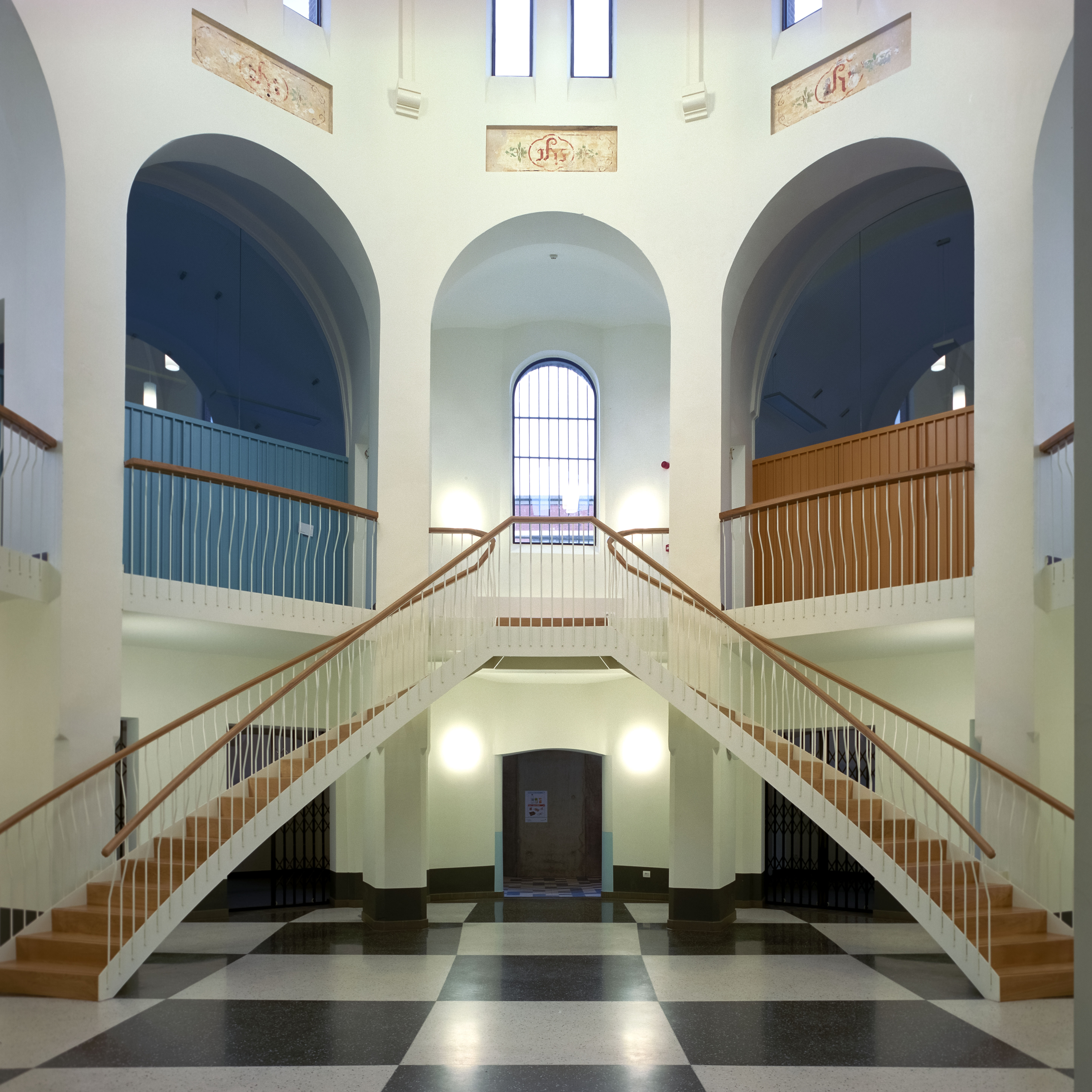 The panopticon at the the old prison, Hasselt University.